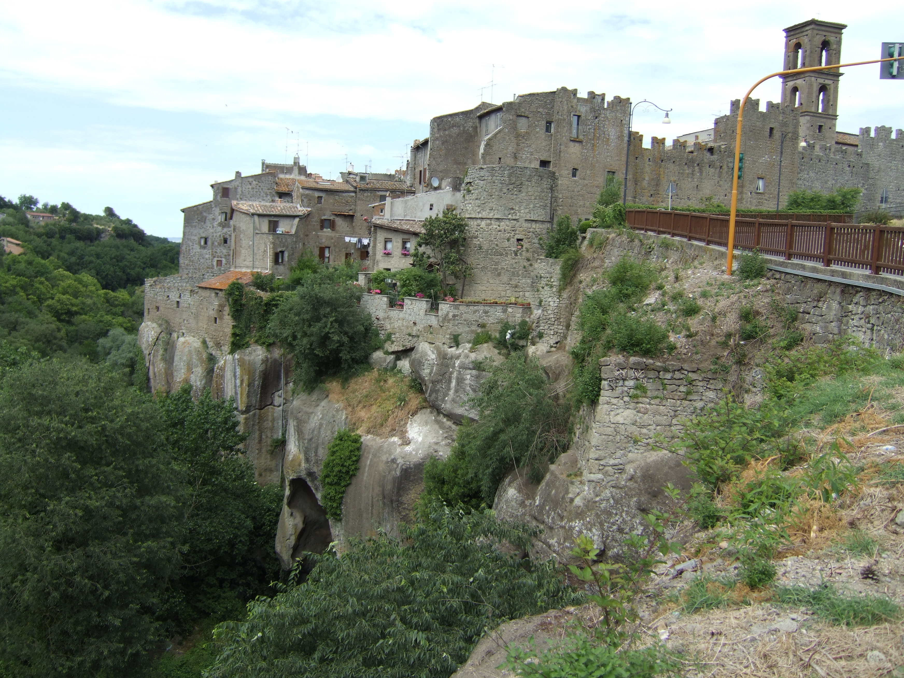 Vitorchiano (IT) - Overview